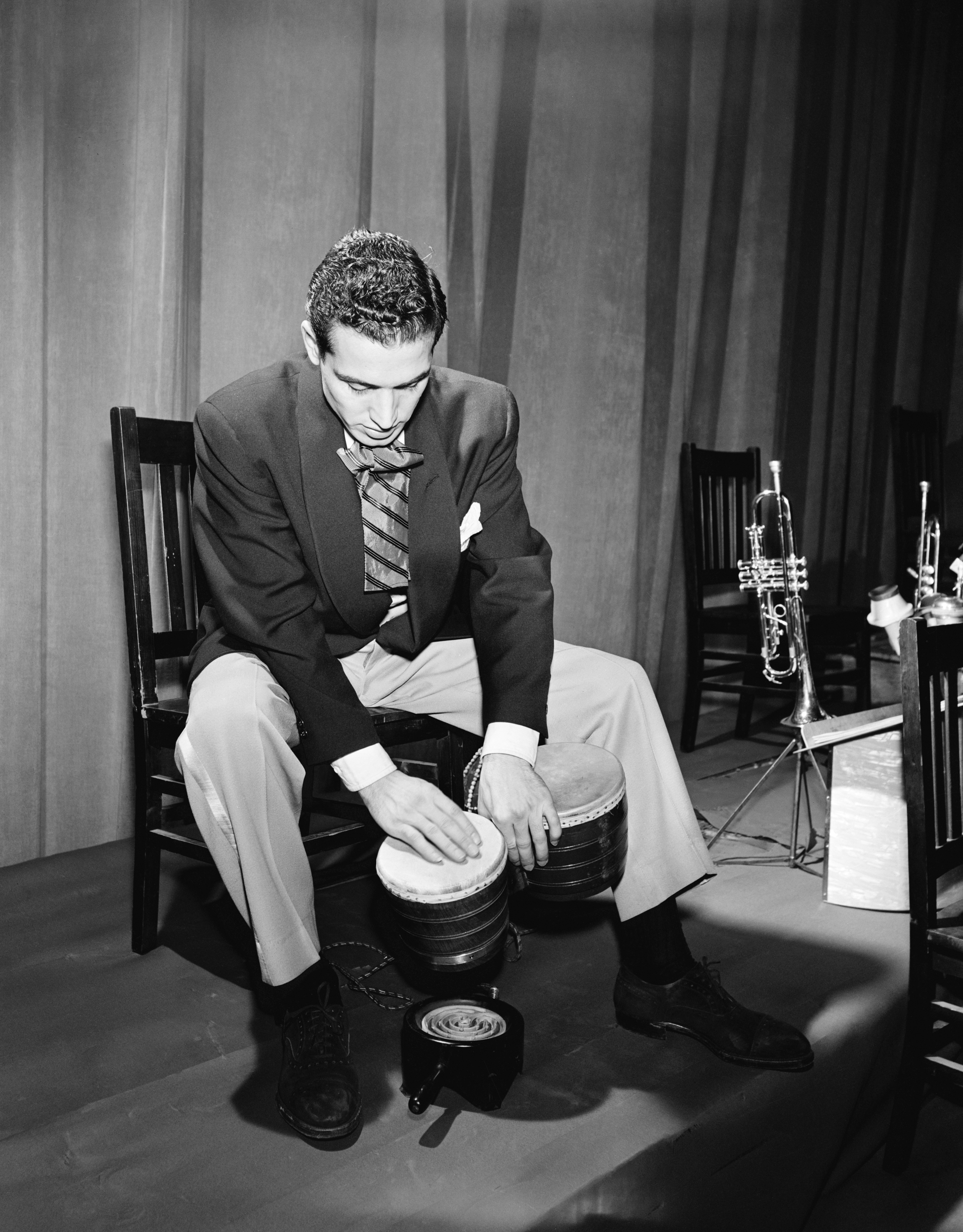 Jack Costanzo by Gottlieb, William P., 1917-, photographer. [Portrait of Jack Costanzo, 1947 or 1948] 1 negative : b&w ; 3 1/4 x 4 1/4 in. Notes: Gottlieb Collection Assignment No. 174 Purchase William P. Gottlieb Forms part of: William P. Gottlieb Collection (Library of Congress). Subjects: Costanzo, Jack, 1922- Stan Kenton Orchestra Jazz musicians--1940-1950. Percussionists--1940-1950. Format: Portrait photographs--1940-1950. Film negatives--1940-1950. Rights Info: Mr. Gottlieb has dedicated these works to the public domain, but rights of privacy and publicity may apply. Repository: (negative) Library of Congress, Prints & Photographs Division, Washington D.C. 20540 USA, Part Of: William P. Gottlieb Collection (DLC) 99-401005 General information about the Gottlieb Collection is available at Persistent URL: Call Number: LC-GLB13- 1306